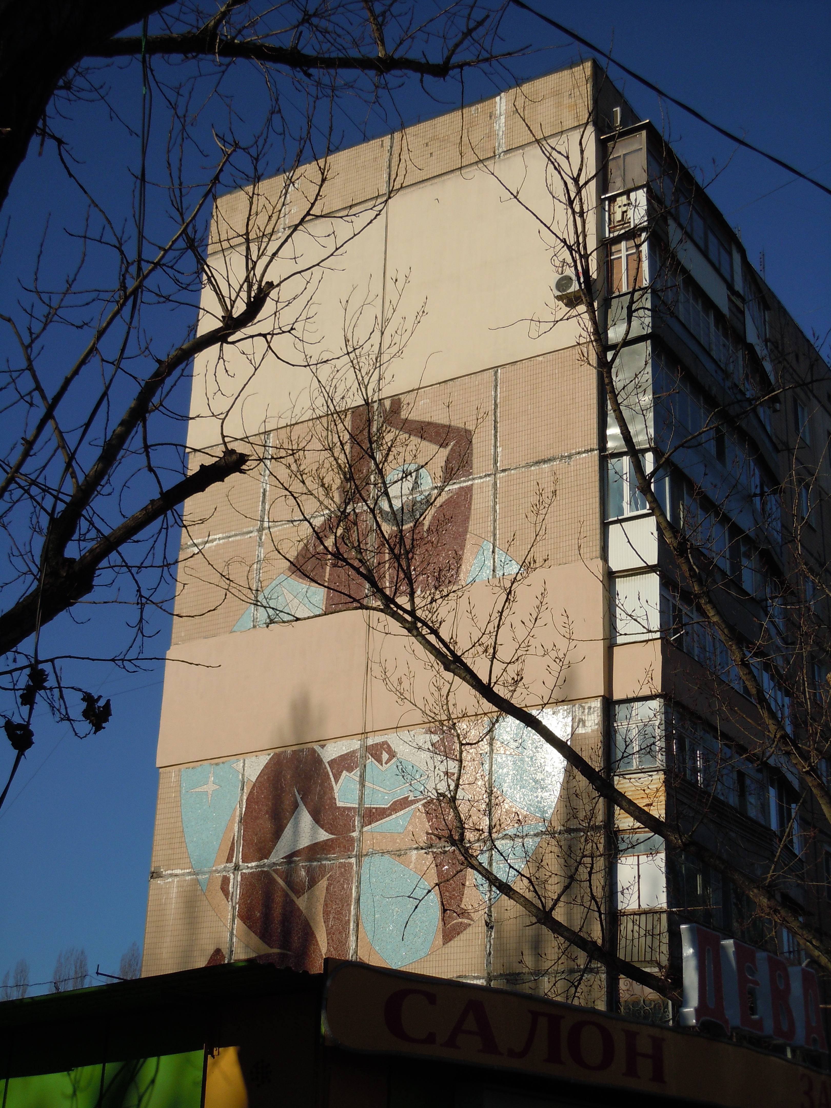 Damaged Soviet panneau